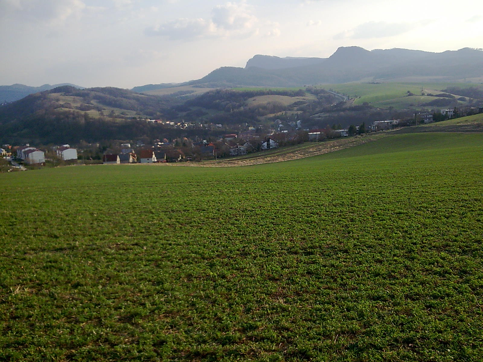 Ráztočno